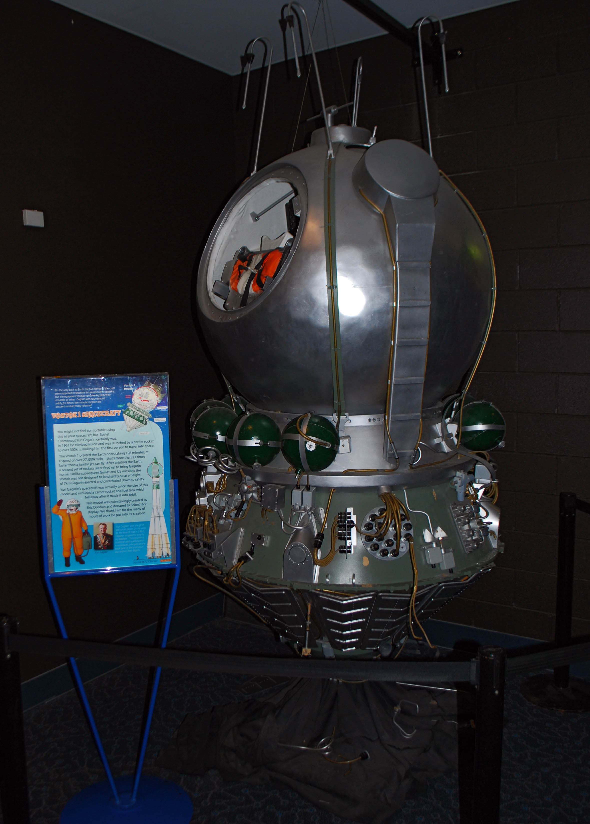 Vostok1 Replica in Scitech Perth WA. This replica was created by Eric Doohan and donated to Scitech